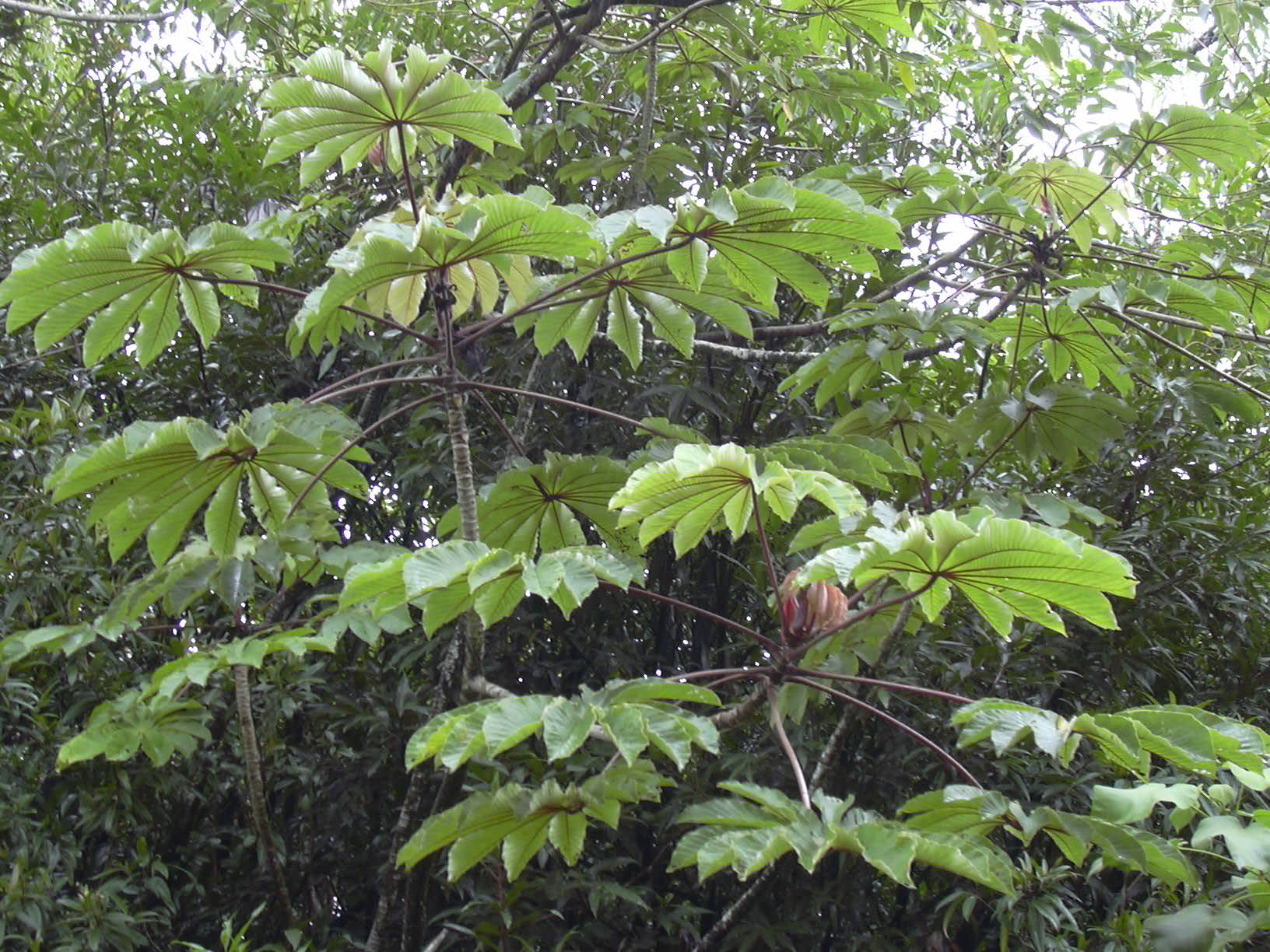 Cecropia obtusifolia (leaves). Location: Hawaii, Hilo